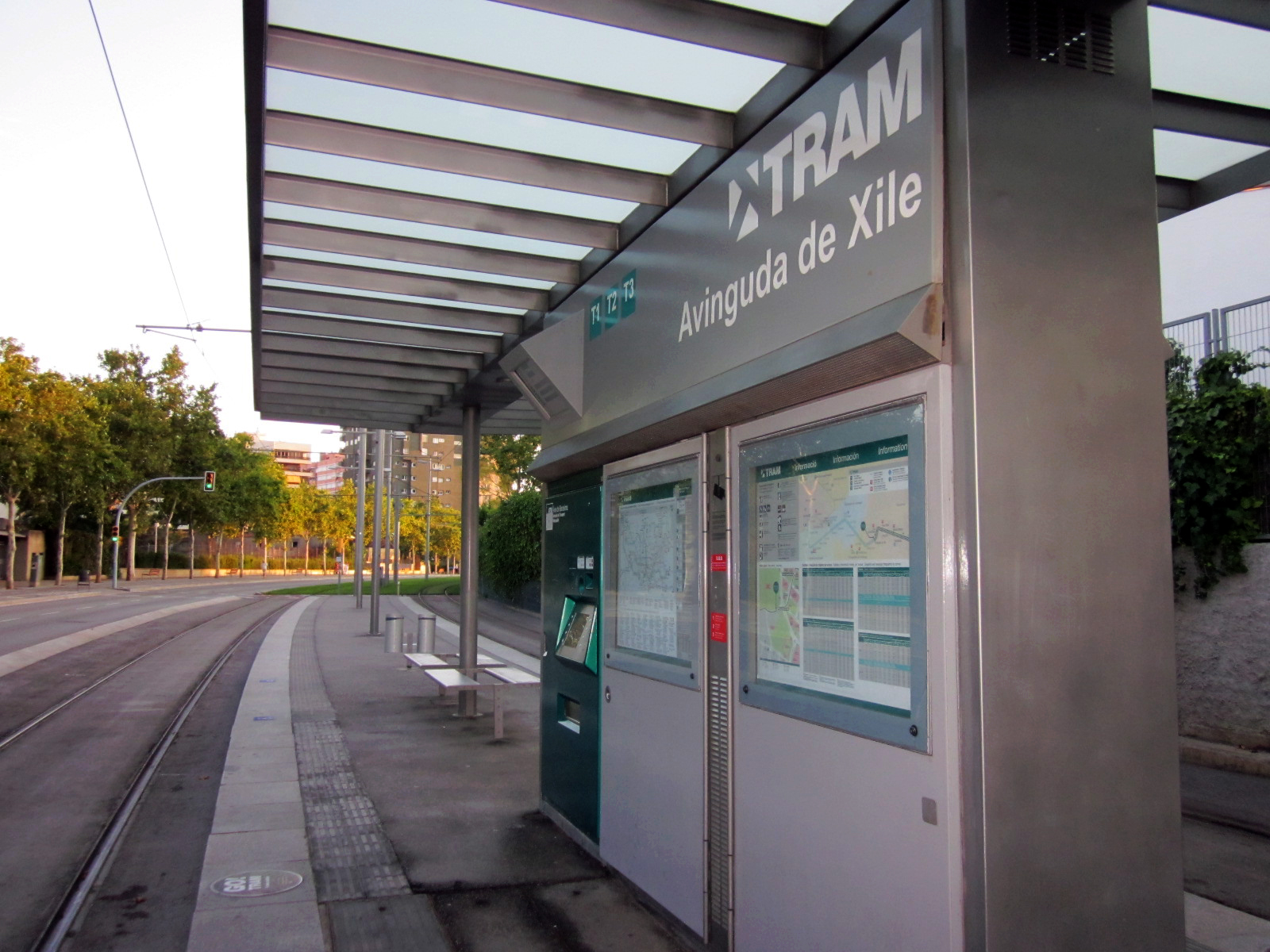 Avinguda de Xile Trambaix stop.